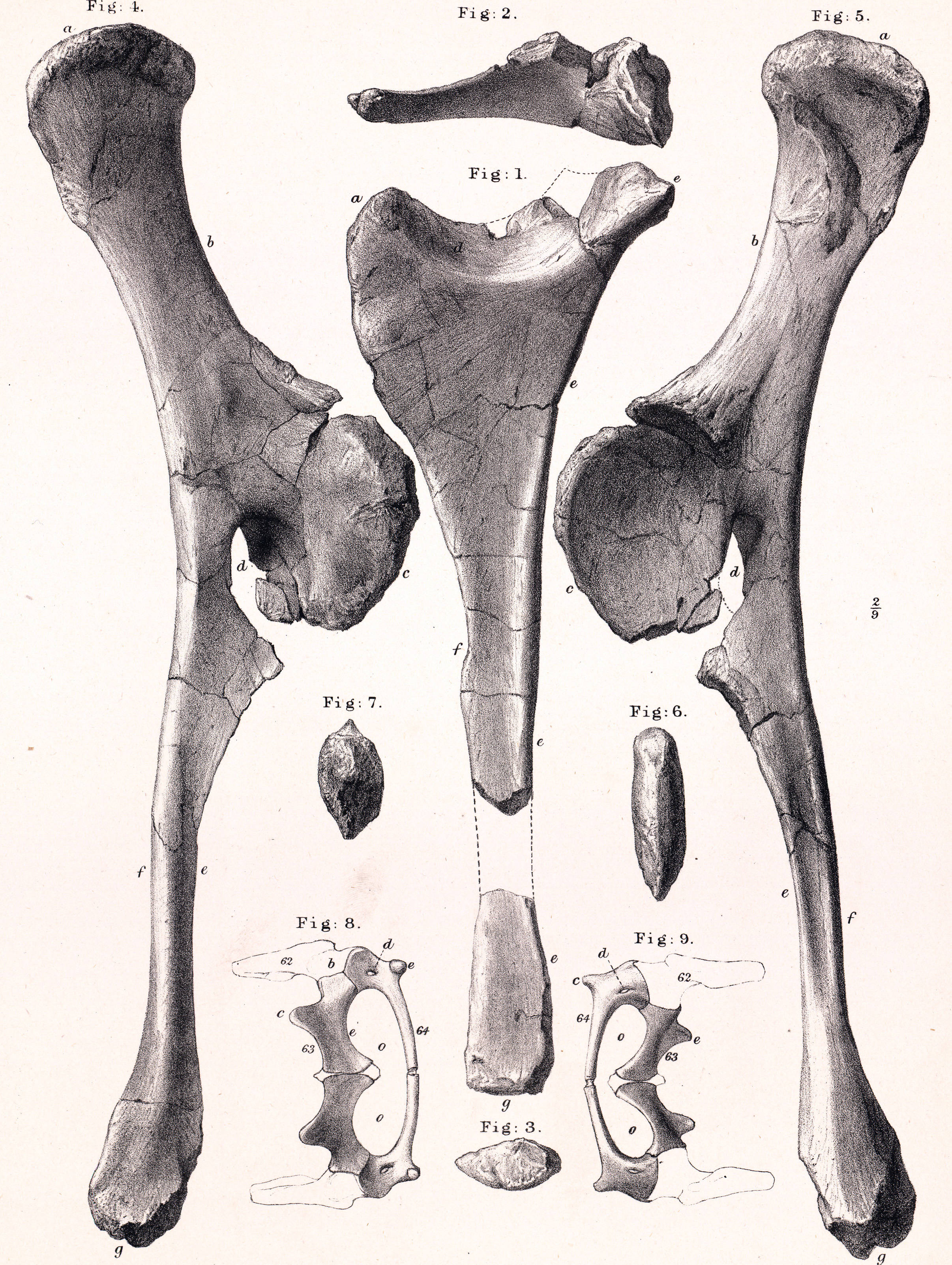 Omosaurus armatus. Fig. 1. Hæmal or under surface of the ischium. Fig. 2. Proximal or acetabular end of the same. Fig. 3. Distal or symphysial end of the same. Fig. 4. Hæmal or under surface of the right pubis. Fig. 5. Neural or upper surface of the same. Fig. 6. Proximal end of the same. Fig. 7. Distal end of the same. Fig. 8. Hæmal or under surface of the pelvis of an Egyptian Lizard (Uromastyx spinipes). Fig. 9. Neural or upper surface of the same. Figs. 8 and 9 are of the natural size; the other figures are two ninths the natural size. The subjects of the latter are from the Kimmeridge Clay at Swindon, Wilts. In the British Museum